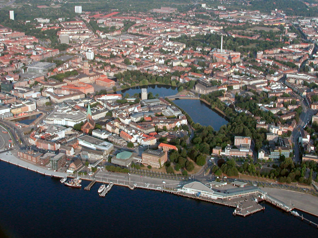 aerial photo of the city of Kiel, GermanyDieses Bild als mit der Maus erkundbare Grafik sehen